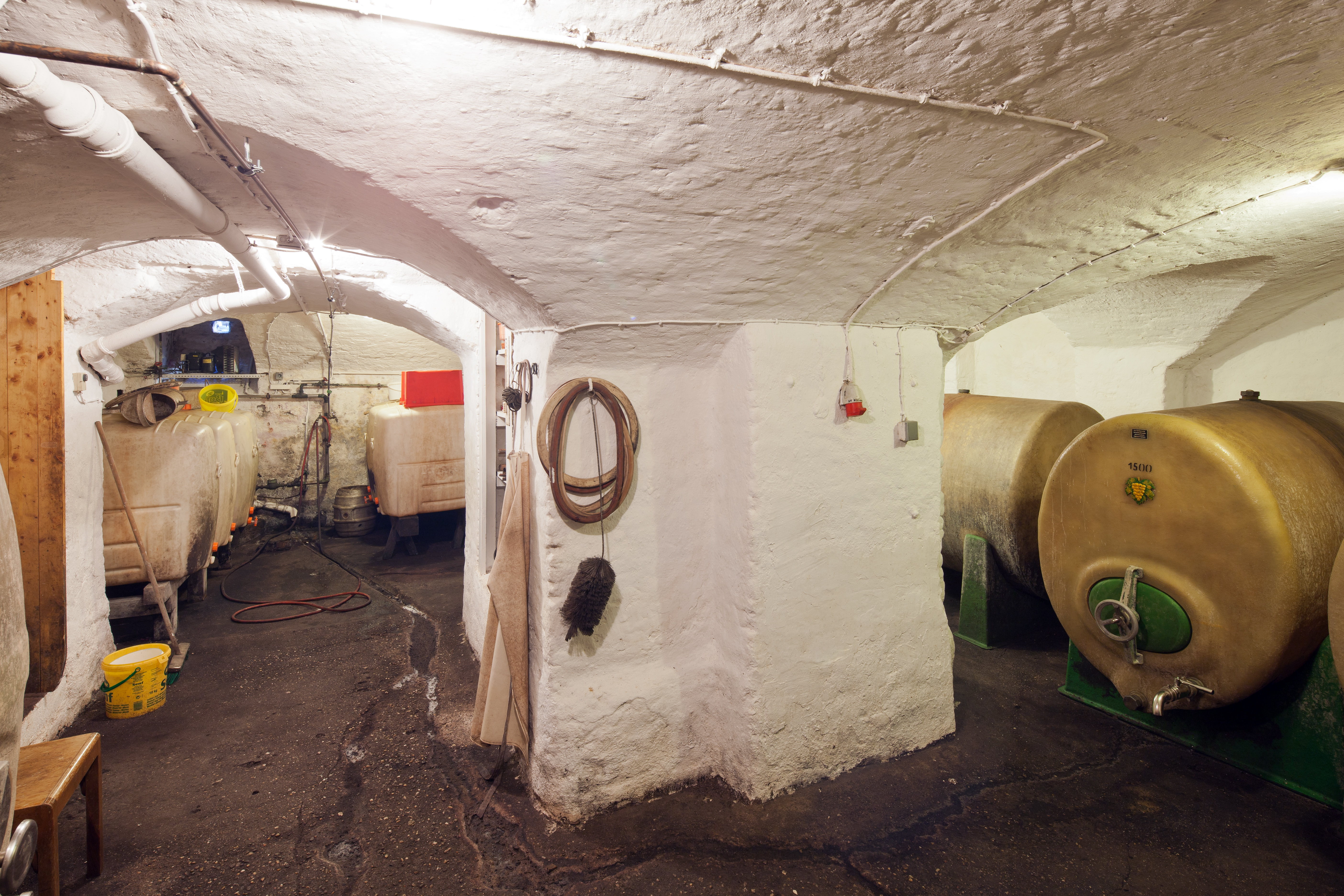 Frankfurt on the Main: Stalburger Oede (Stalburg Waste), cellar below the taproom of the main building as seen from the southwest